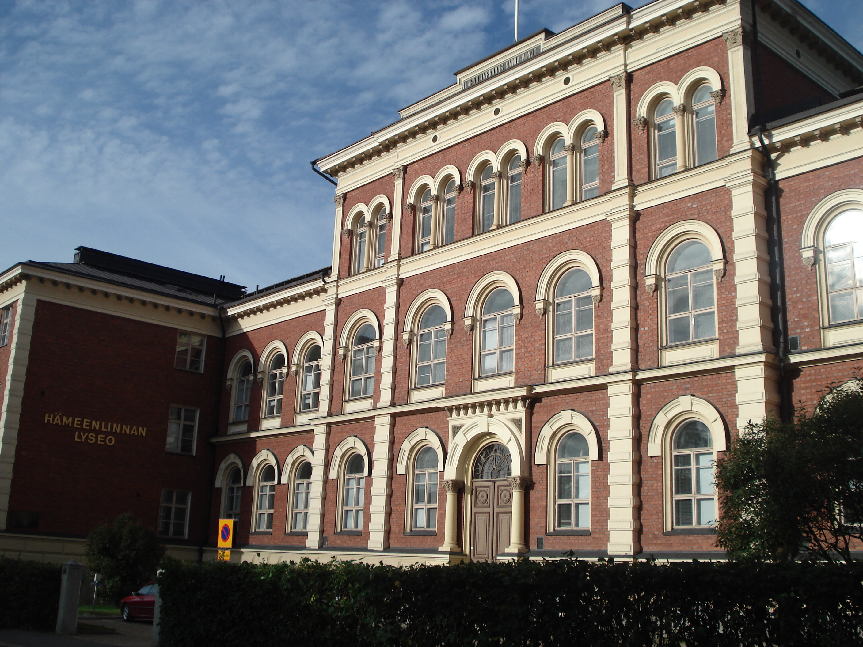 Hämeenlinna lyceum in August 2012